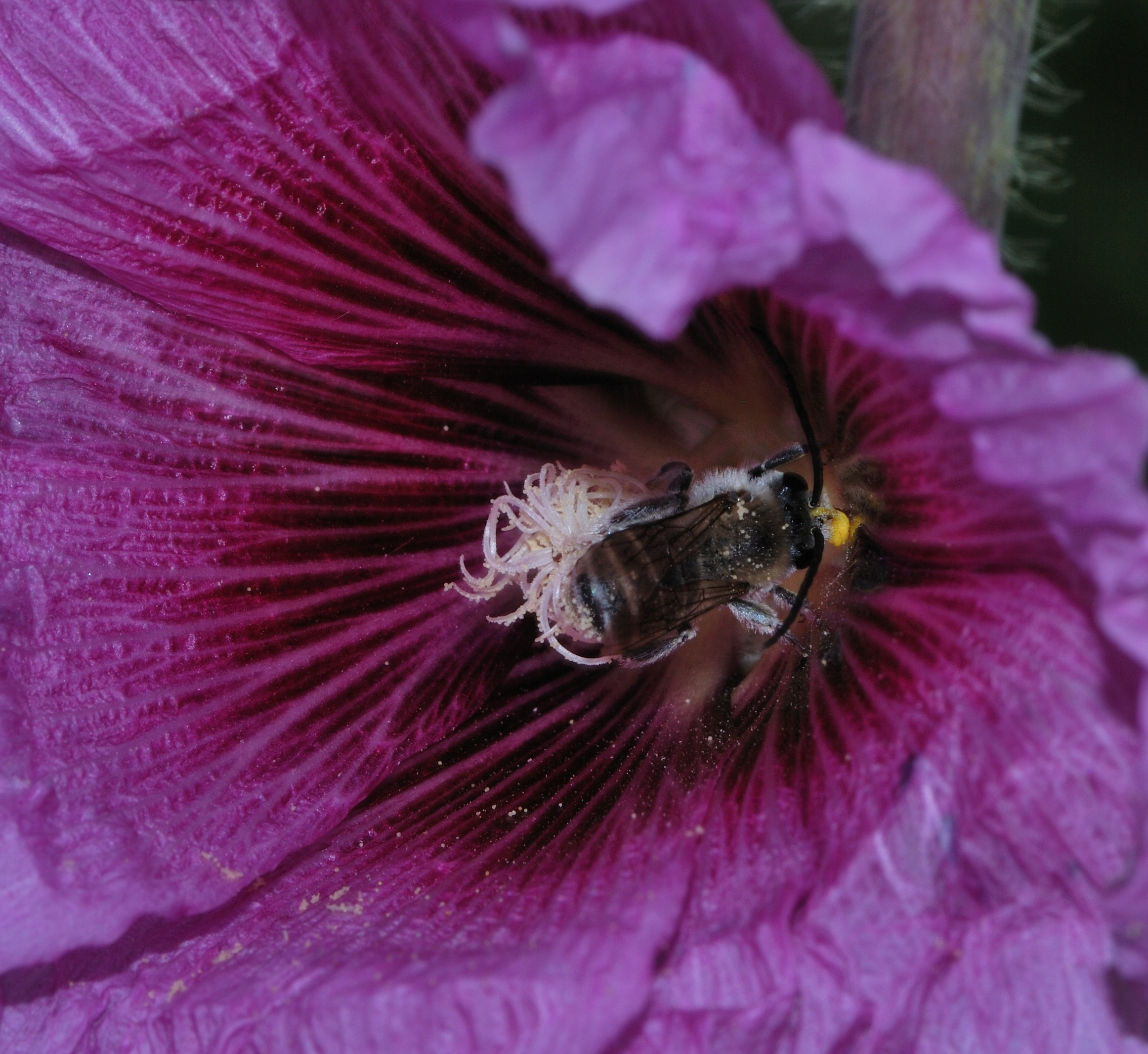 Eucera cinnamomea Alfken, 1935, male foraging on Alcea setosa. An orchid pollinium can be seen attached to the bee's head, between the antennae. Mount Carmel, Israel, April 17, 2011.